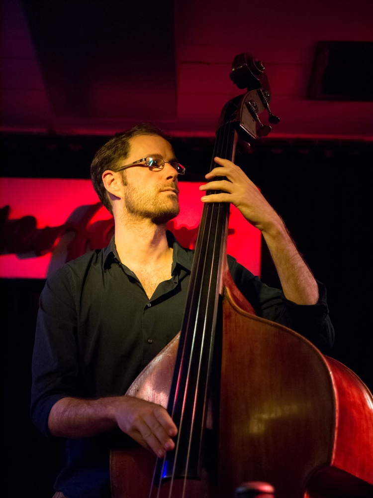 LE BANG BANG, Sven Faller, Jazz bassist; Picture taken in Jazz Club Unterfahrt, Munich/Bavaria